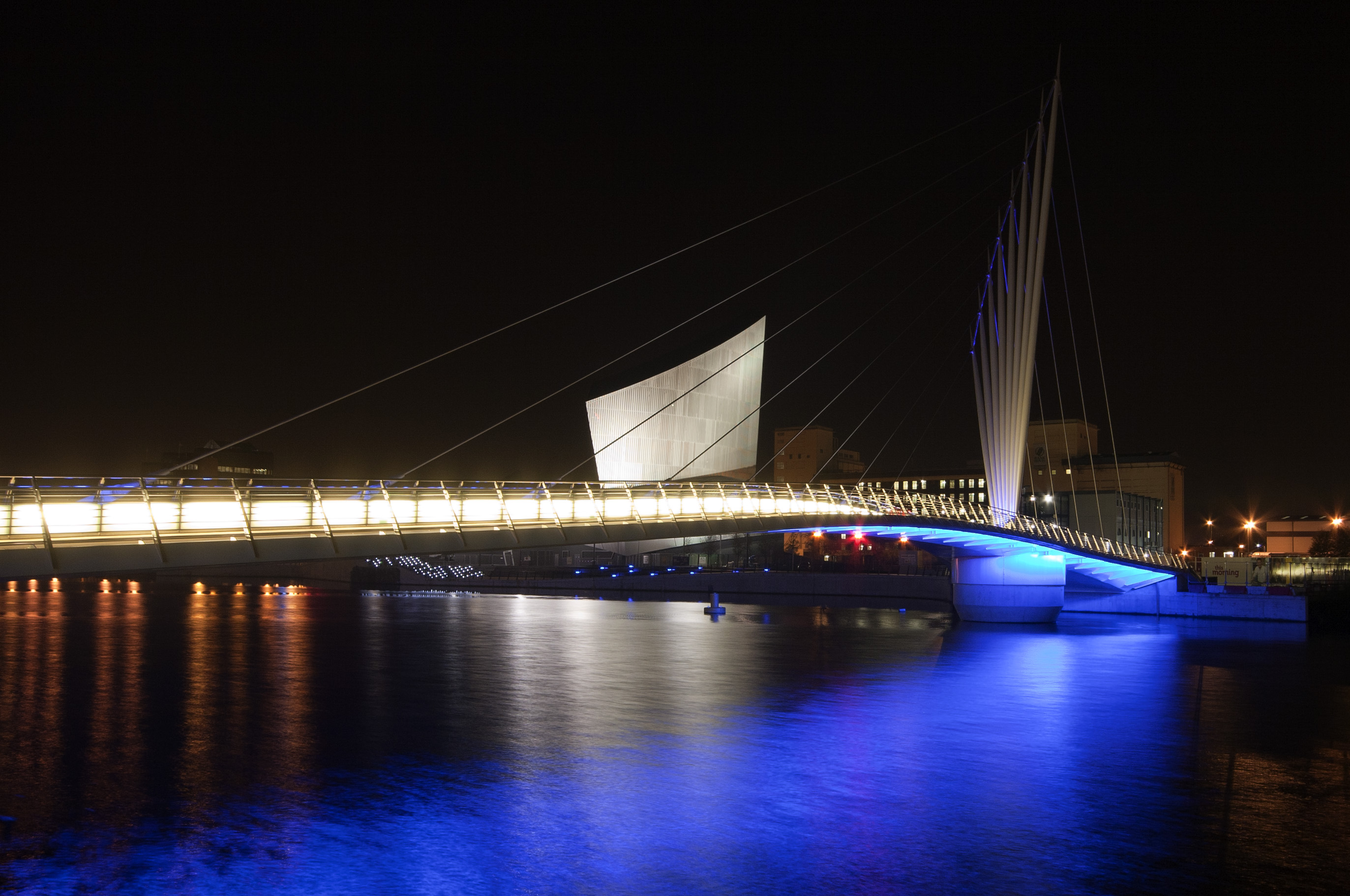 The pedestrian swing bridge at Salford Quays, from the north side of the Ship Canal.